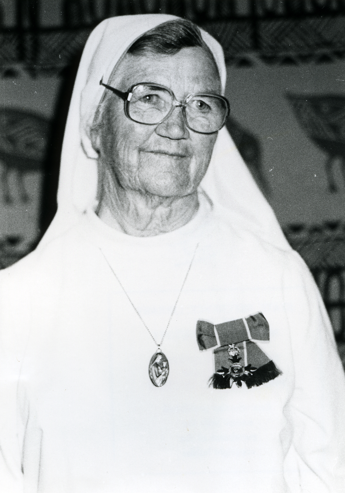 Sister Mary Eucharia MBE (PH0107-0363)